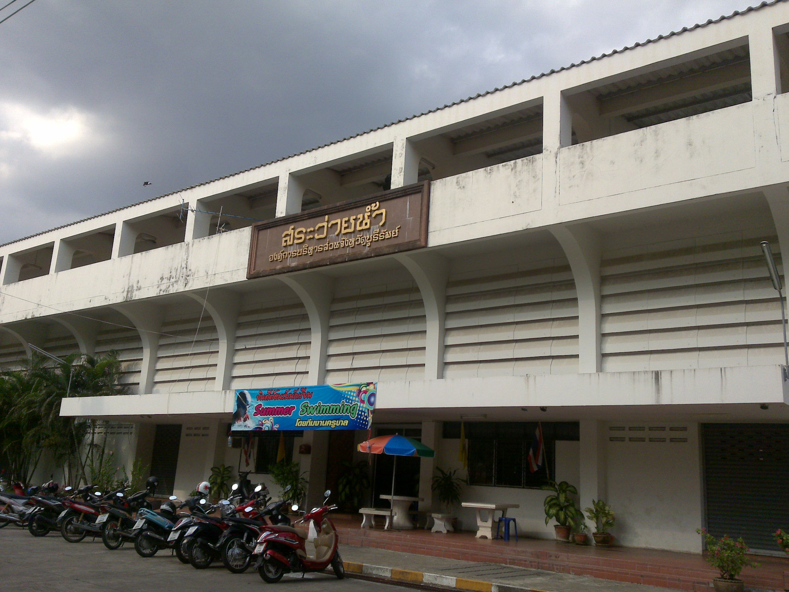 Buriram Swimming Pool